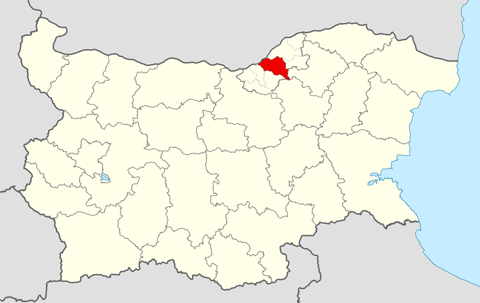 Location map of Ivanovo Municipality within Bulgaria and Ruse Province Equirectangular projection, N/S stretching 130 %. Geographic limits of the map: N: 44.4° N S: 41.1° N W: 22.1° E E: 28.9° E